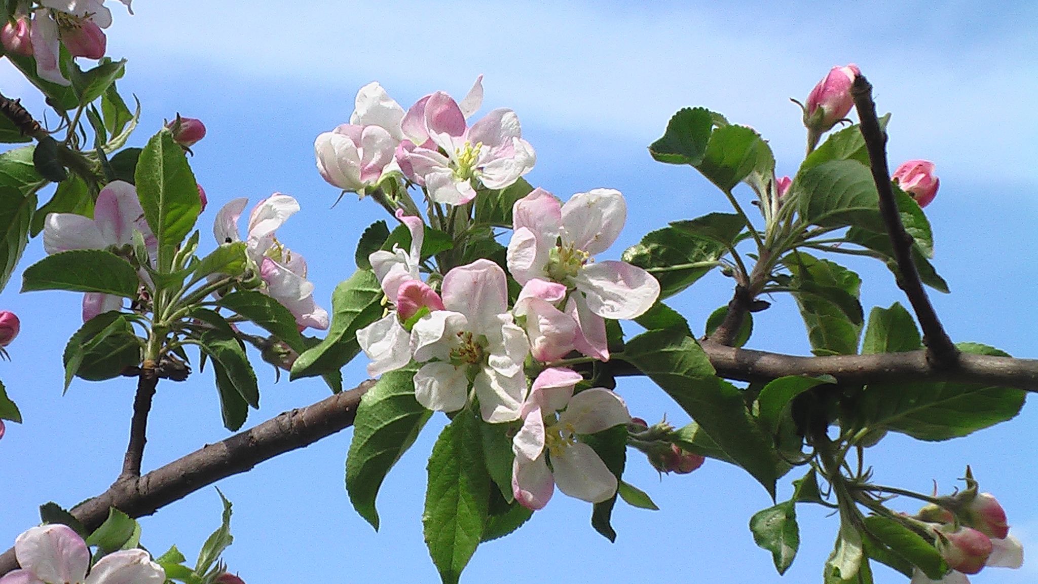 Apple Flowers